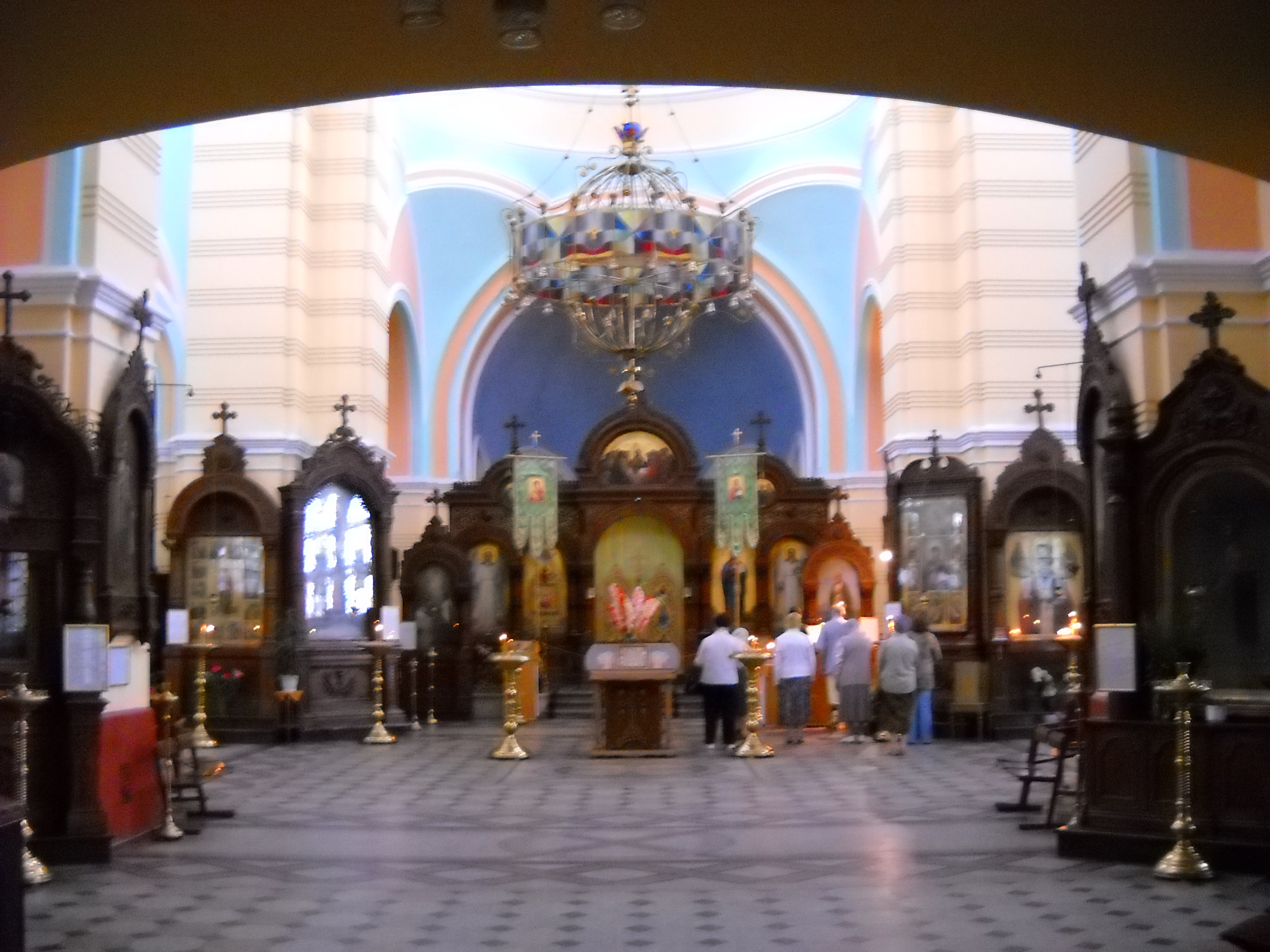 Orthodox Church of Revelation of the Holy Mother of God in Vilnius.